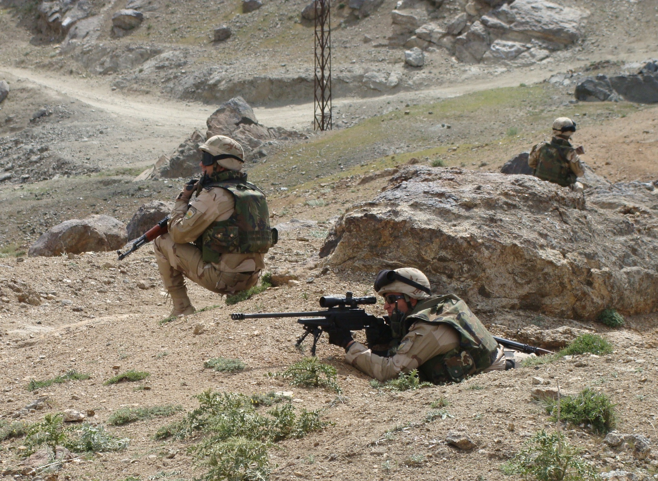 Bulgarian Operators of 68th Brigade SF - Dismounted patrol, north of KAIA, Kabul